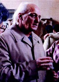 Juan Posadas